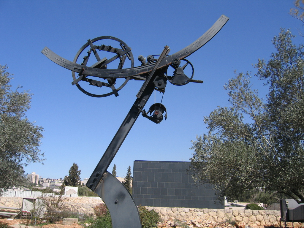 Tinguely, Jean, Eos xk (3), 1965, at the israel museum, jerusalem. photo by yair talmor Israel museum Art Garden